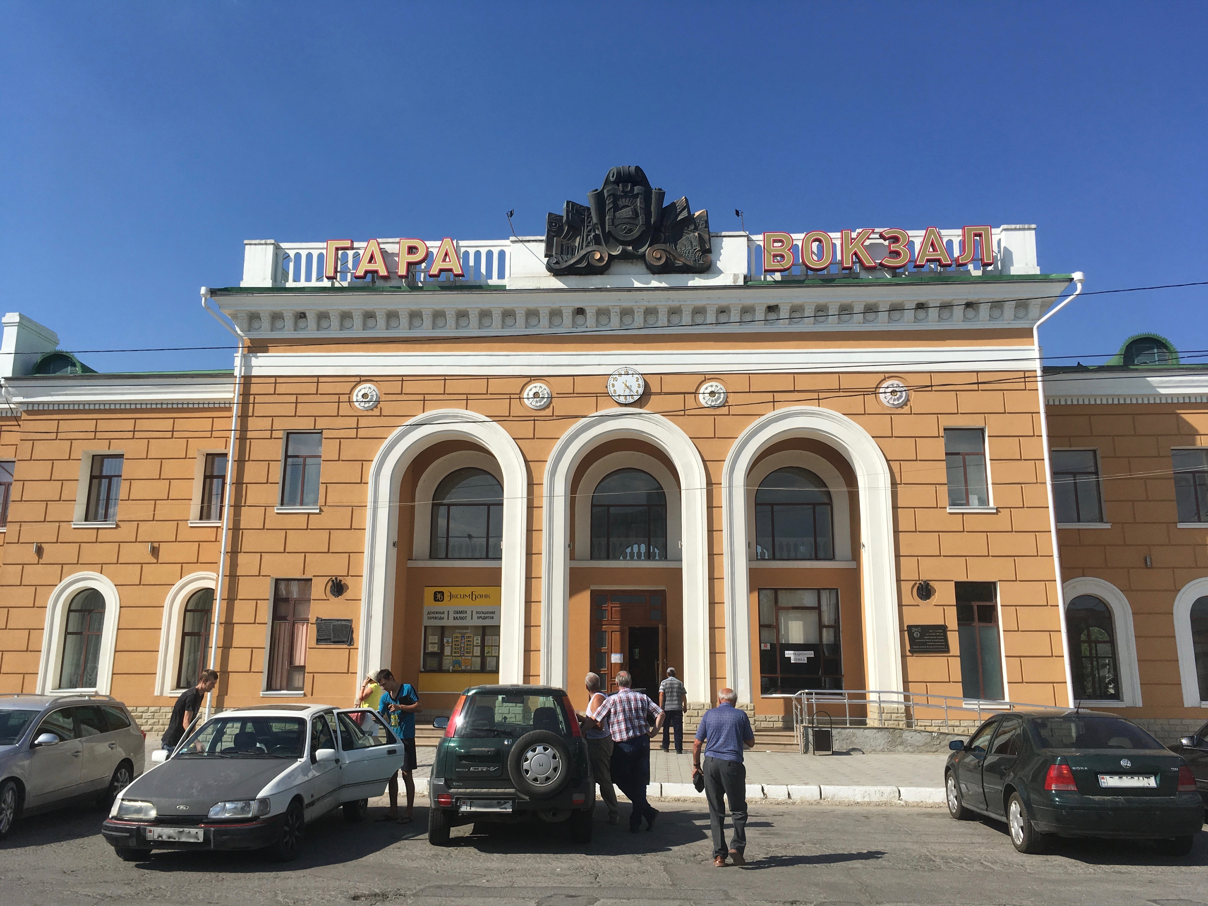 Tiraspol's (Transnistria) train station main entrance. "Train station" is written in Moldovan ("gara" Romanian in Cyrillic) on the left and in Russian ("vaxal") on the right.